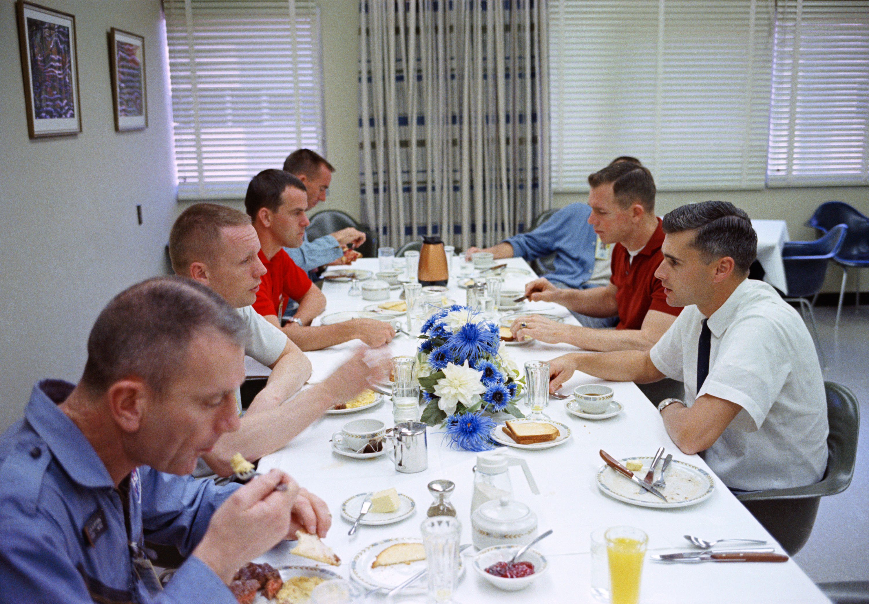 Gemini 8 prime crew and other astronauts at prelaunch breakfast. The Gemini 8 prime crew, along with several fellow astronauts, have a hearty breakfast of steak and eggs on the morning of the Gemini 8 launch. Seated clockwise around the table, starting at lower left, are Donald K. Slayton, Manned Spaceflight Center (MSC) Assistant Director for Flight Crew Operations; Astronaut Neil Armstrong, Gemini 8 command pilot; Scientist-Astronaut F. Curtis Michel; Astronaut Walter Cunningham; Astronaut Alan Shepard (face obscured), Chief, MSC Astronaut Office; Astronaut David Scott, Gemini 8 pilot; and Astronaut Roger B. Chaffee.